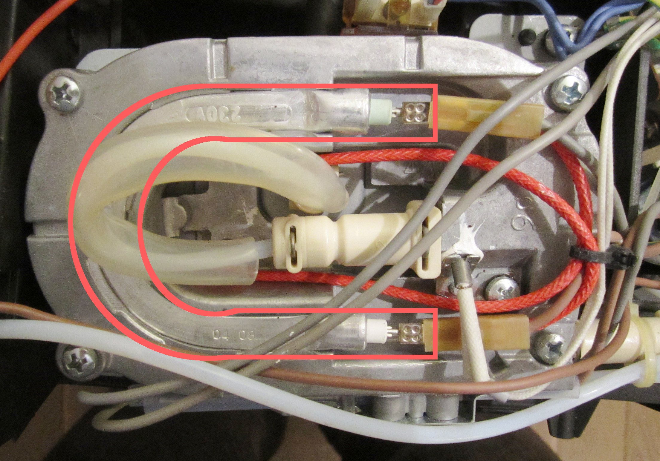 Heating unit of a DeLonghi Espresso Machine ESAM 4500, electric heating pipe marked